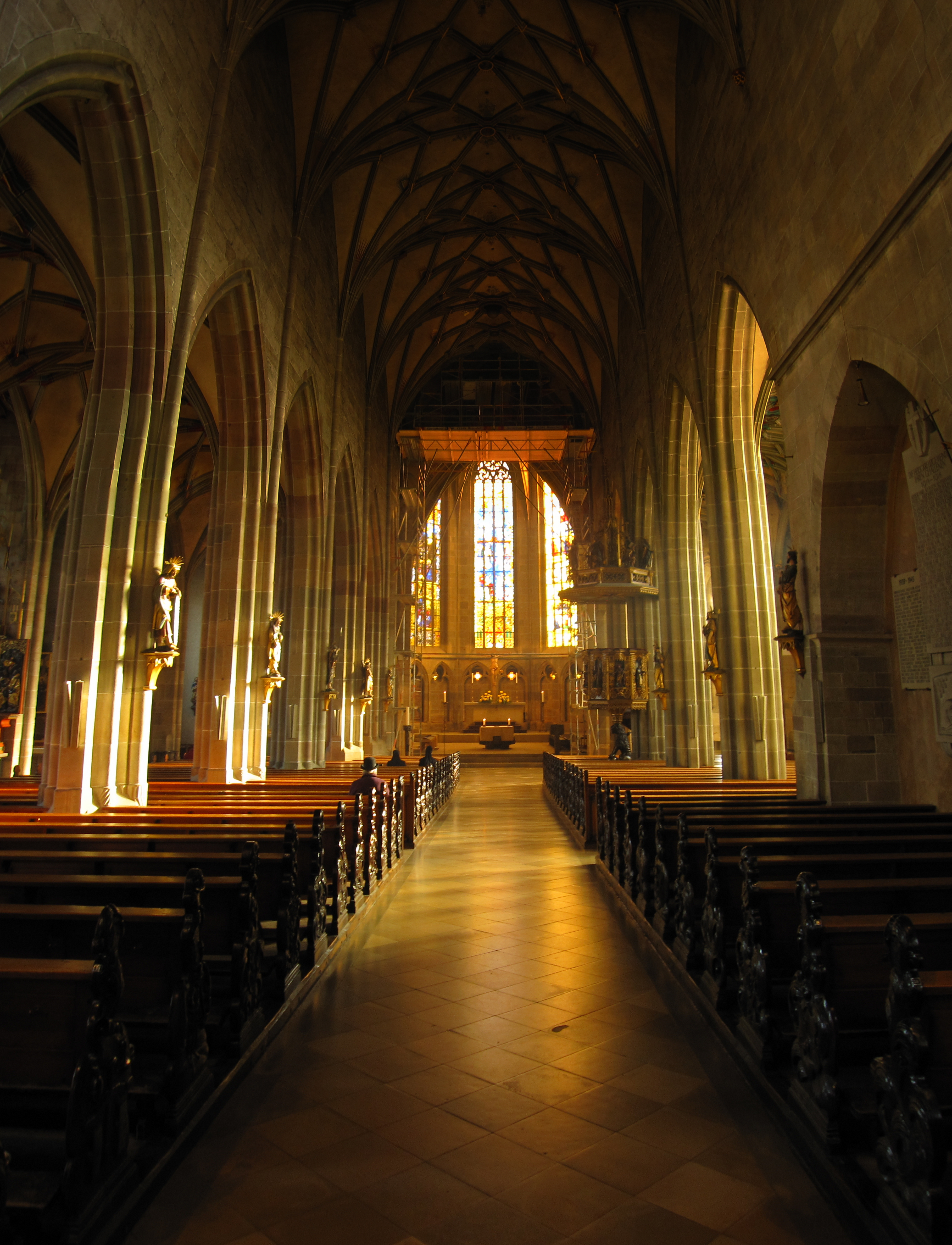 Holy Cross Minster, Rottweil panoramic view